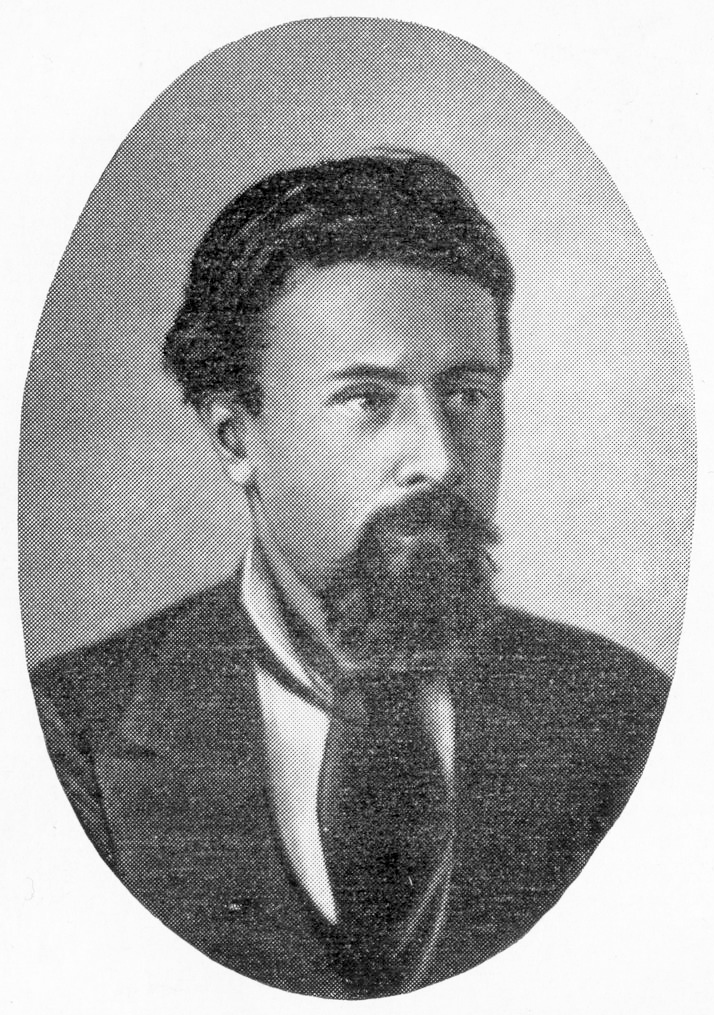 Photo of Nikolay Kibalchich, russian revolutionary